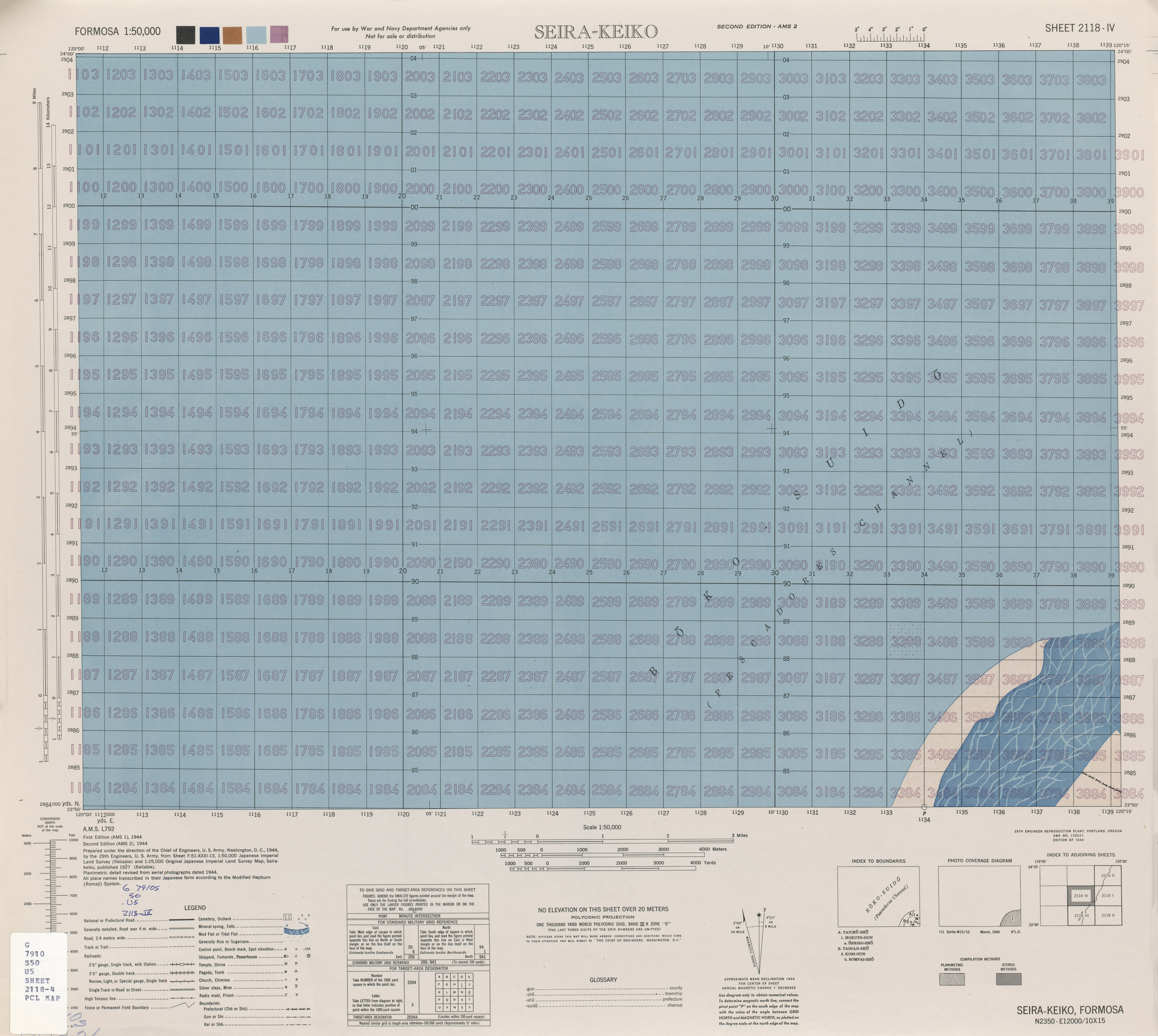 Map from Formosa (Taiwan) 1:50,000 AMS Series L792